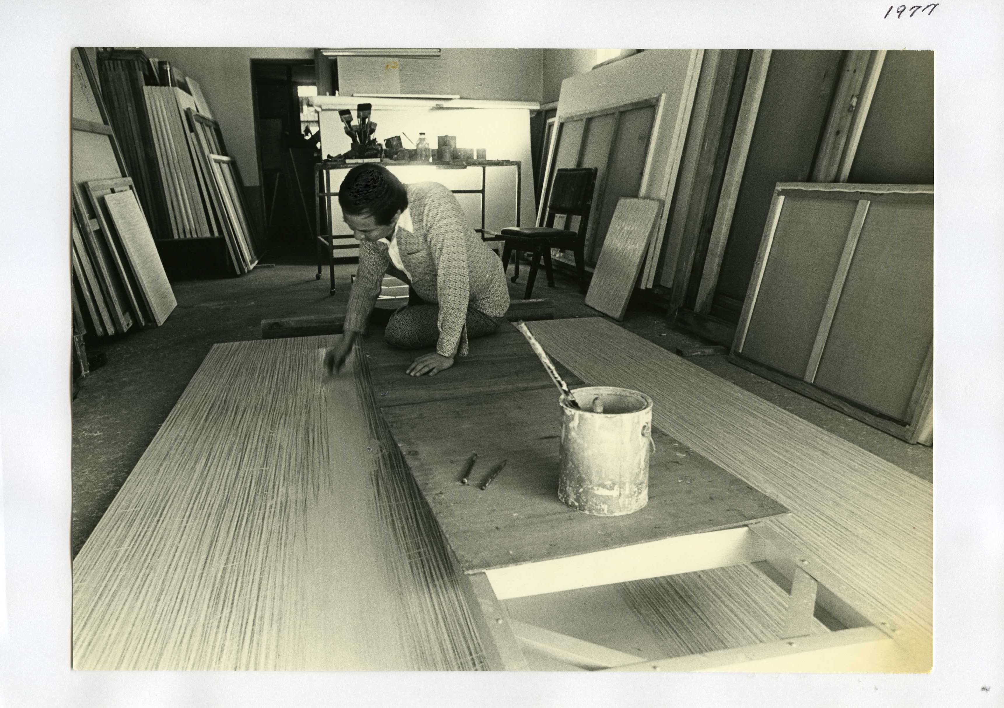 Park Seo-Bo is working on a piece of his Ecriture on a huge size of canvas with a pencil in his Hapjeong-dong studio in 1977 in Seoul, South Korea. That thing he is sitting on is a work bench he converted an aluminum stepladder into.